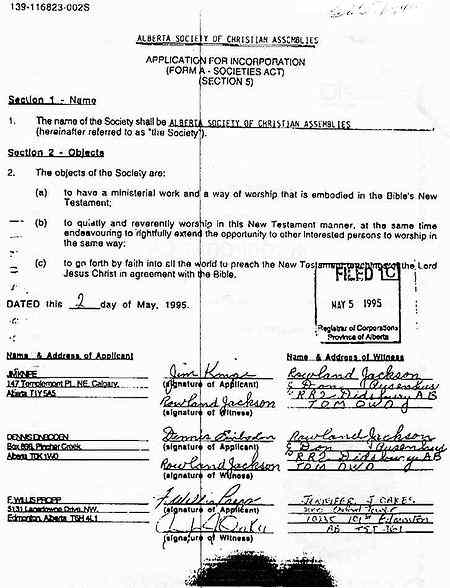 Alberta Society of Christian Assemblies application for incorporation. Public record.